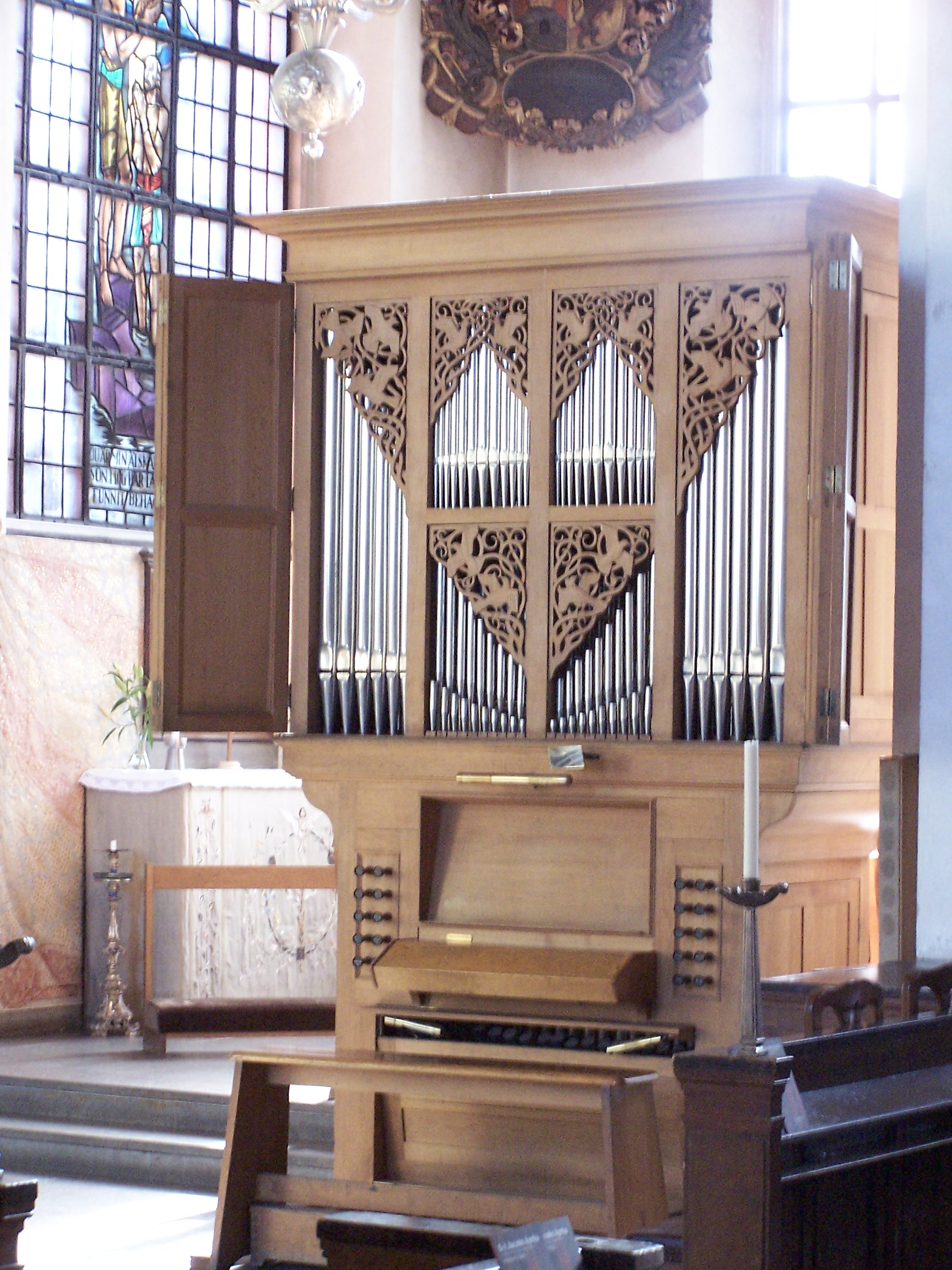 Jakob church, Stockholm, Sweden - Choir organ